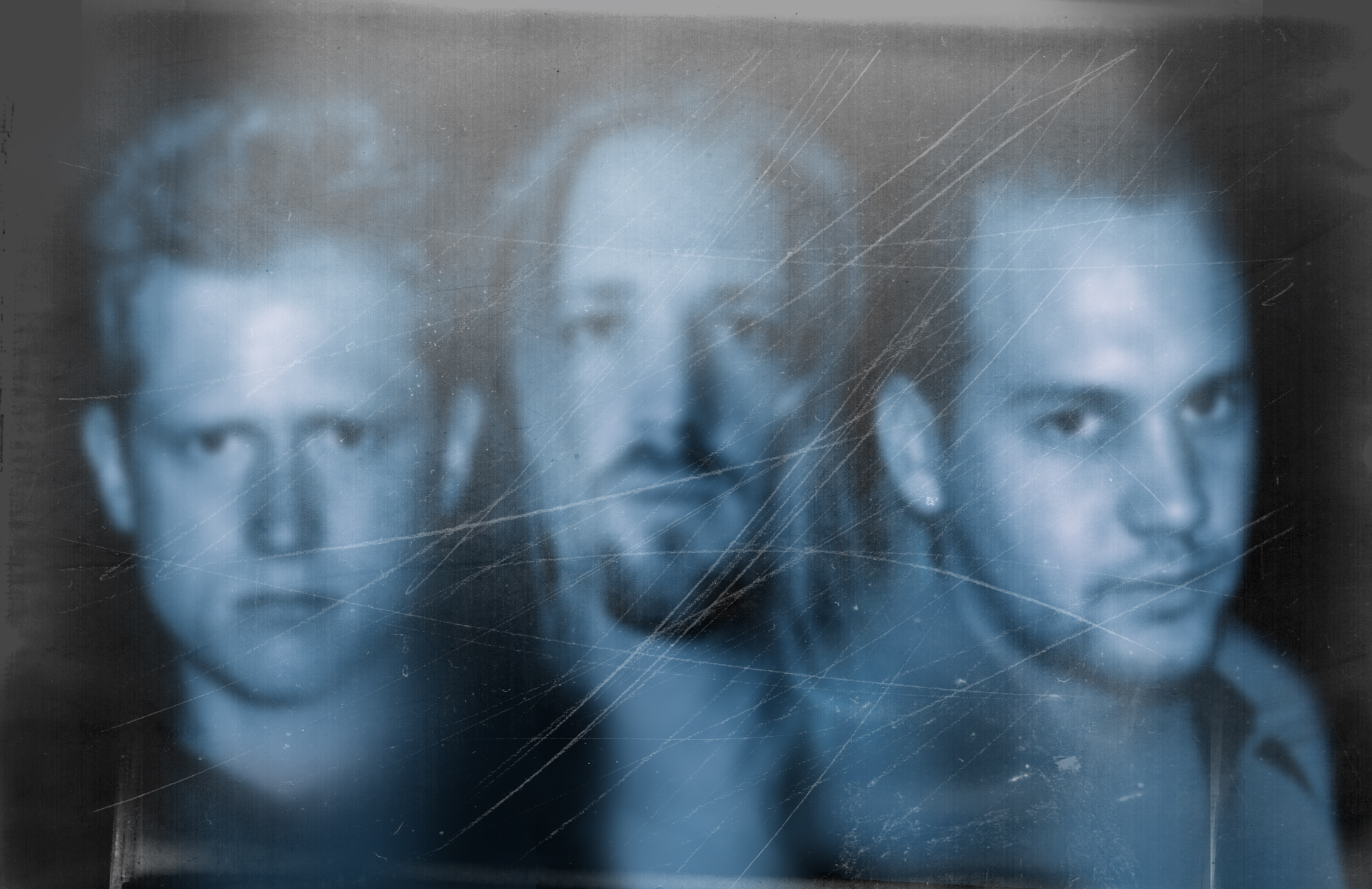 photo of Austrian band KorovaKill